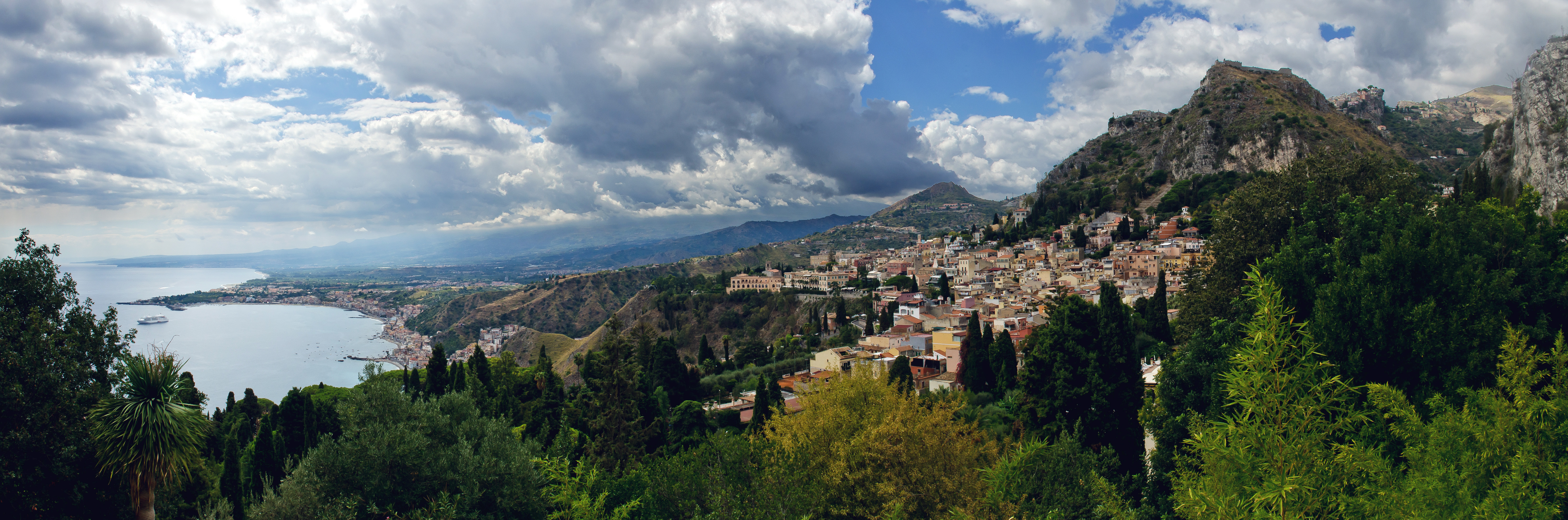 Giardini Naxos bay and hill of Taormina and Castelmola, Sicily